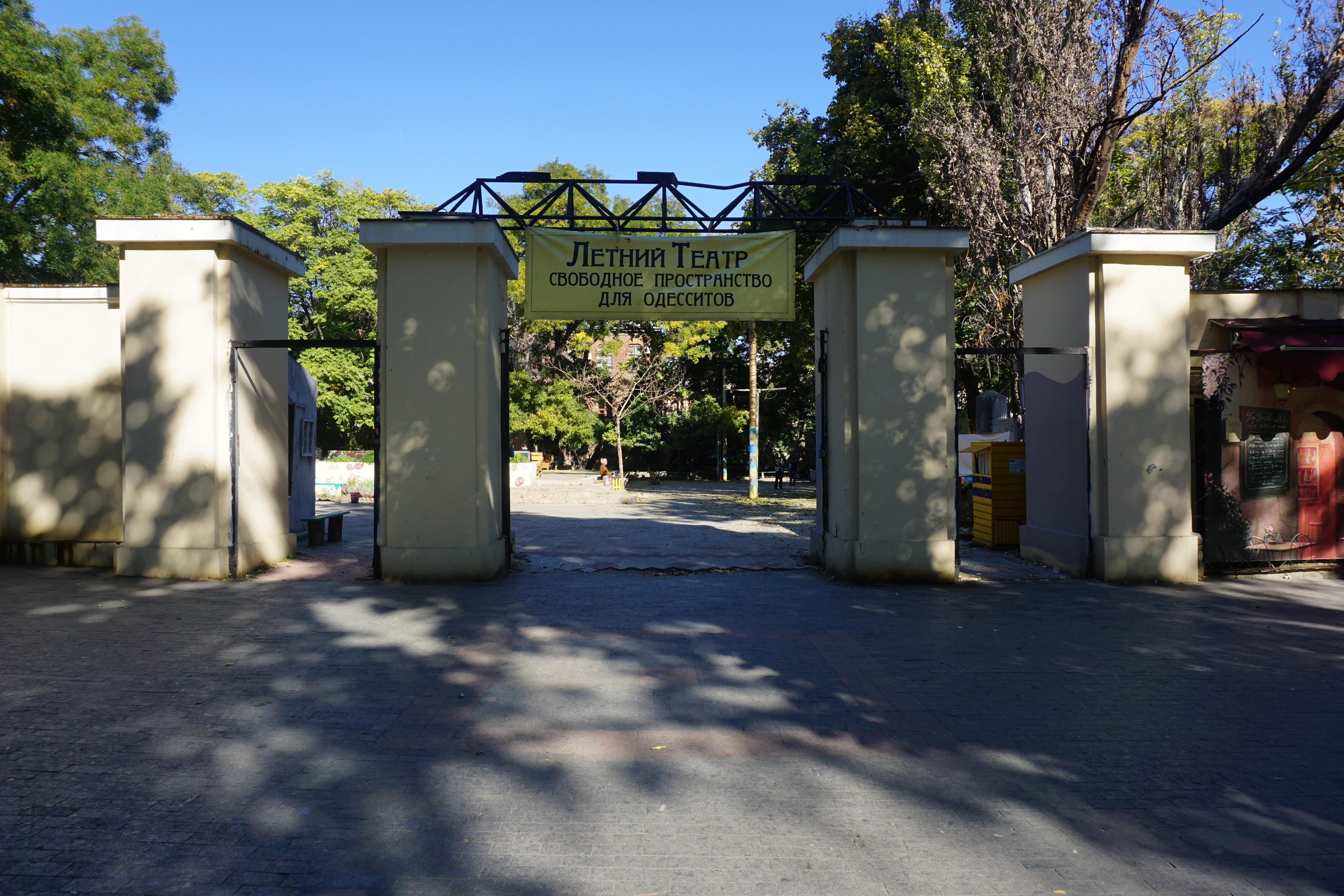 The photo of the entrance to the Summer Theater of the City Garden in Odessa was made in the summer of 2018.